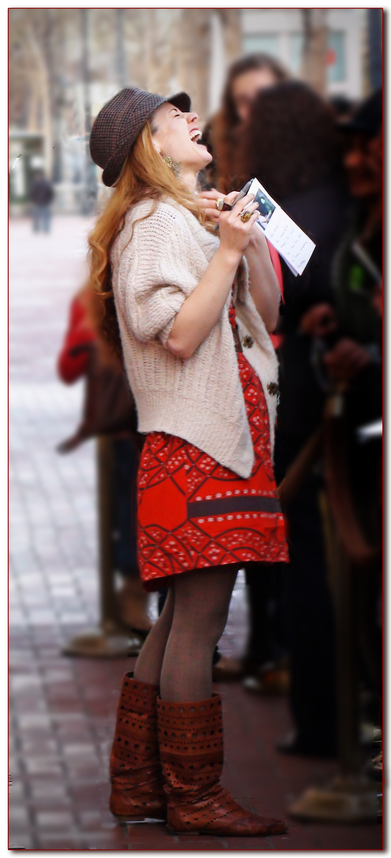 Use in Teal Wicks Wikipedia page